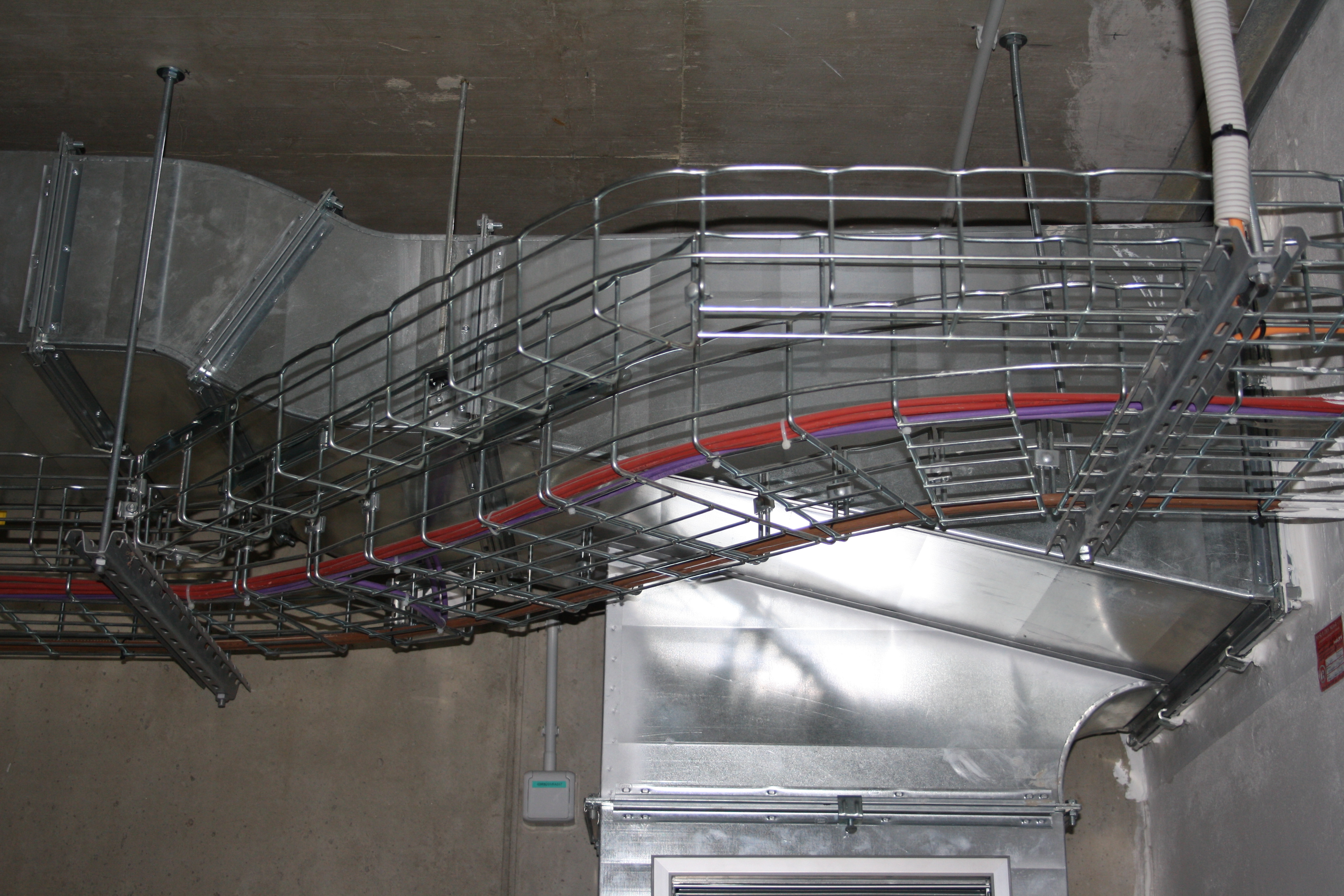 Wire cable tray